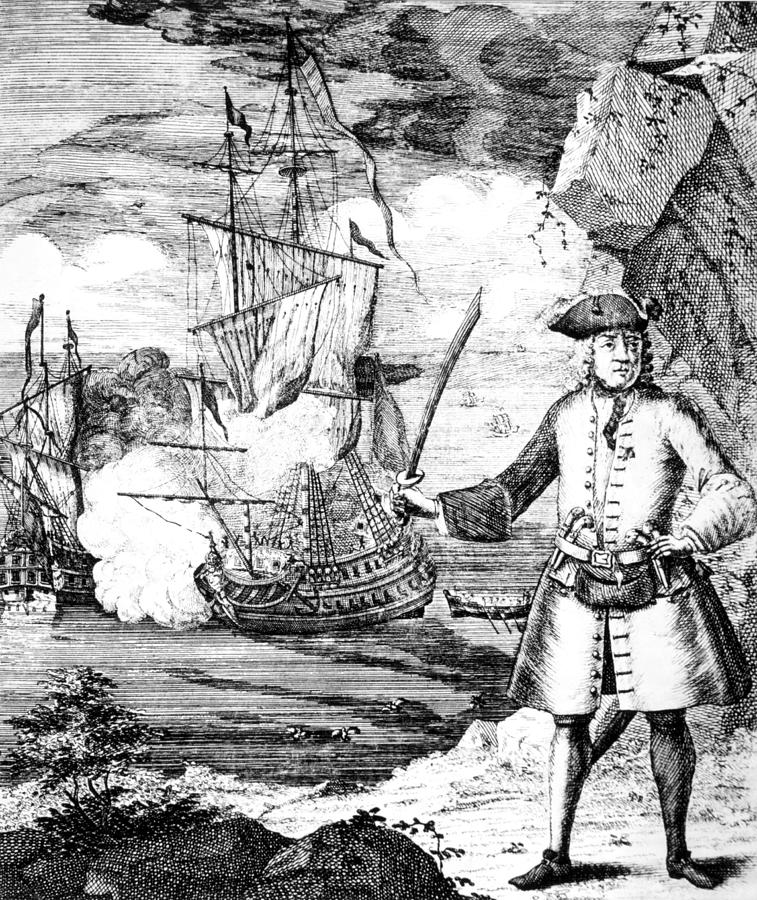 Pirate captain Henry Every is depicted on shore while his ship, the Fancy, engages an unidentified vessel.